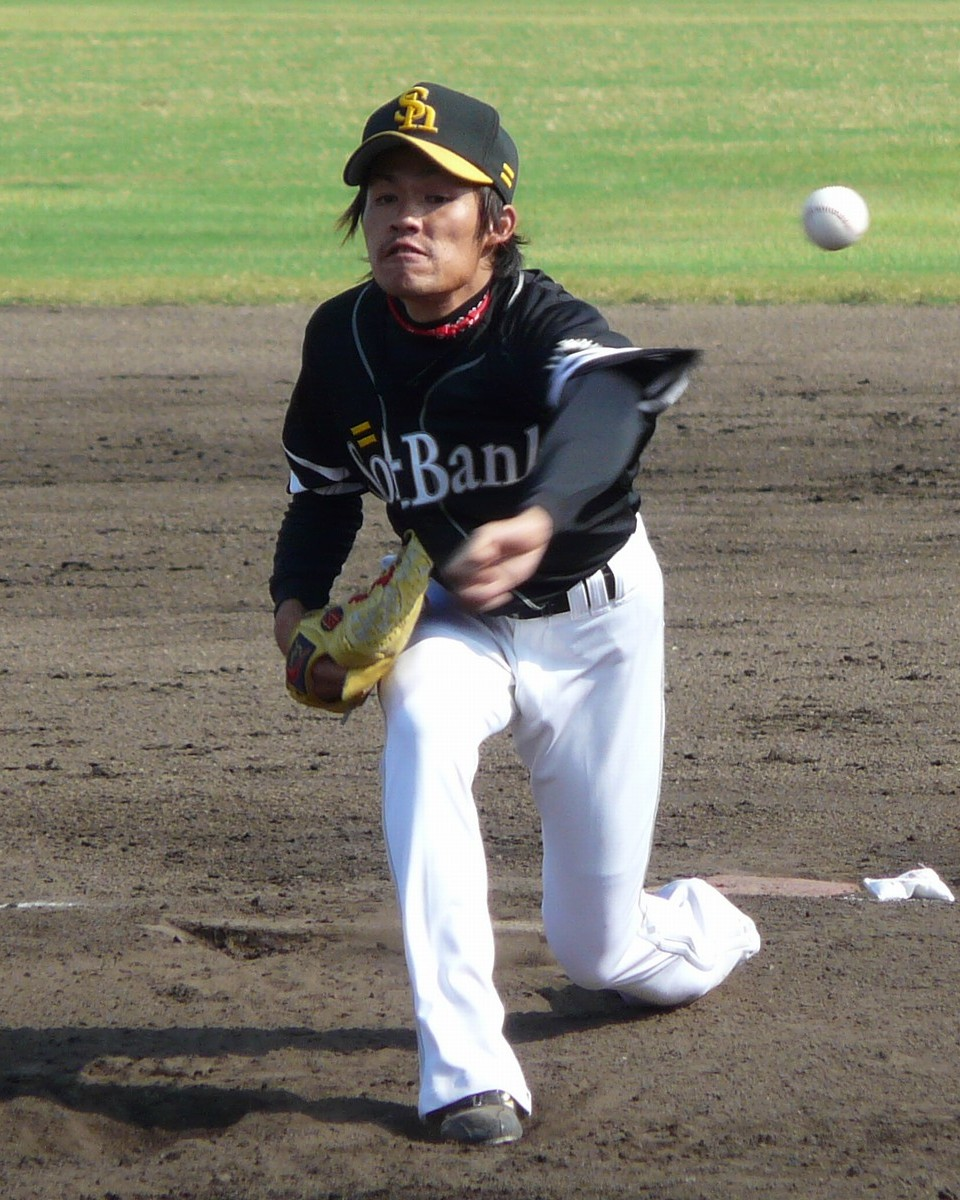 Masahiko Morifuku, pitcher of the Fukuoka SoftBank Hawks, at Nagoya Baseball Stadium.